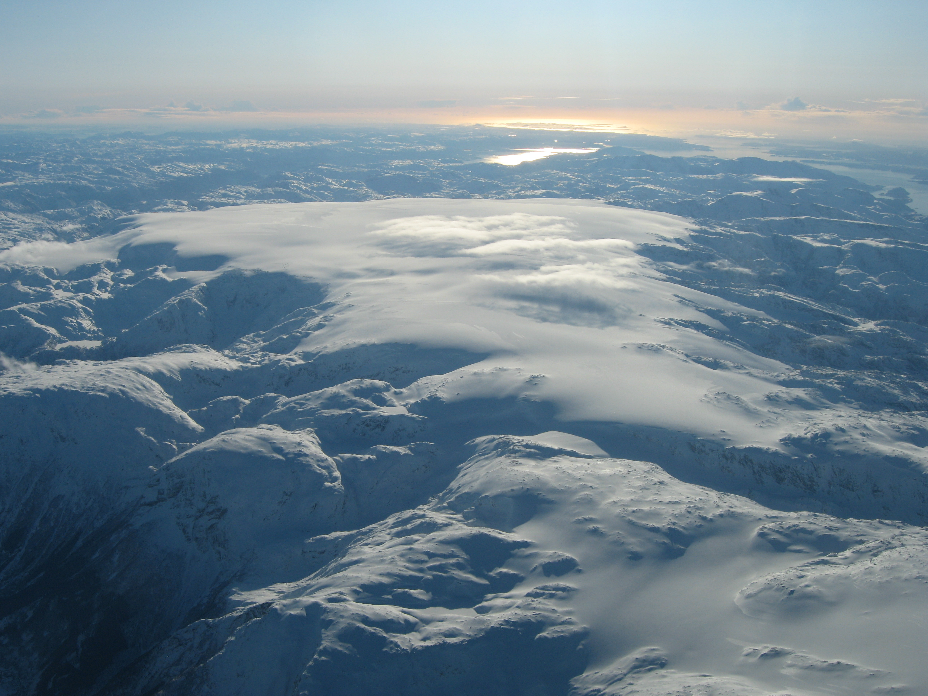 Folgefonna glacier southern part Norsk (bokmål): Folgefonna søndre part (den største delen av Folgefonna)